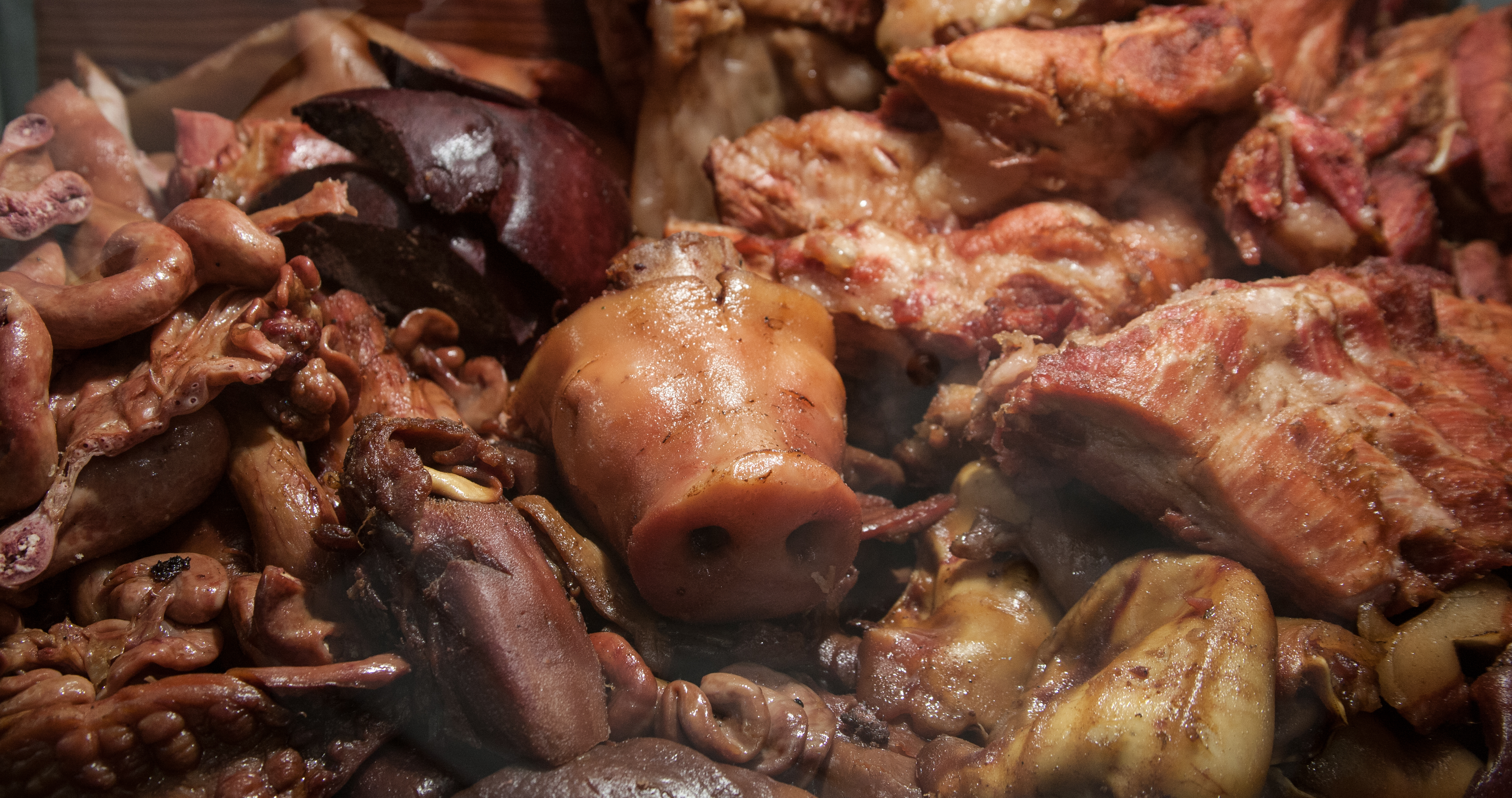 Carnitas is pork cooked in a certain way, deep fried in its own lard, cooked in copper pots.